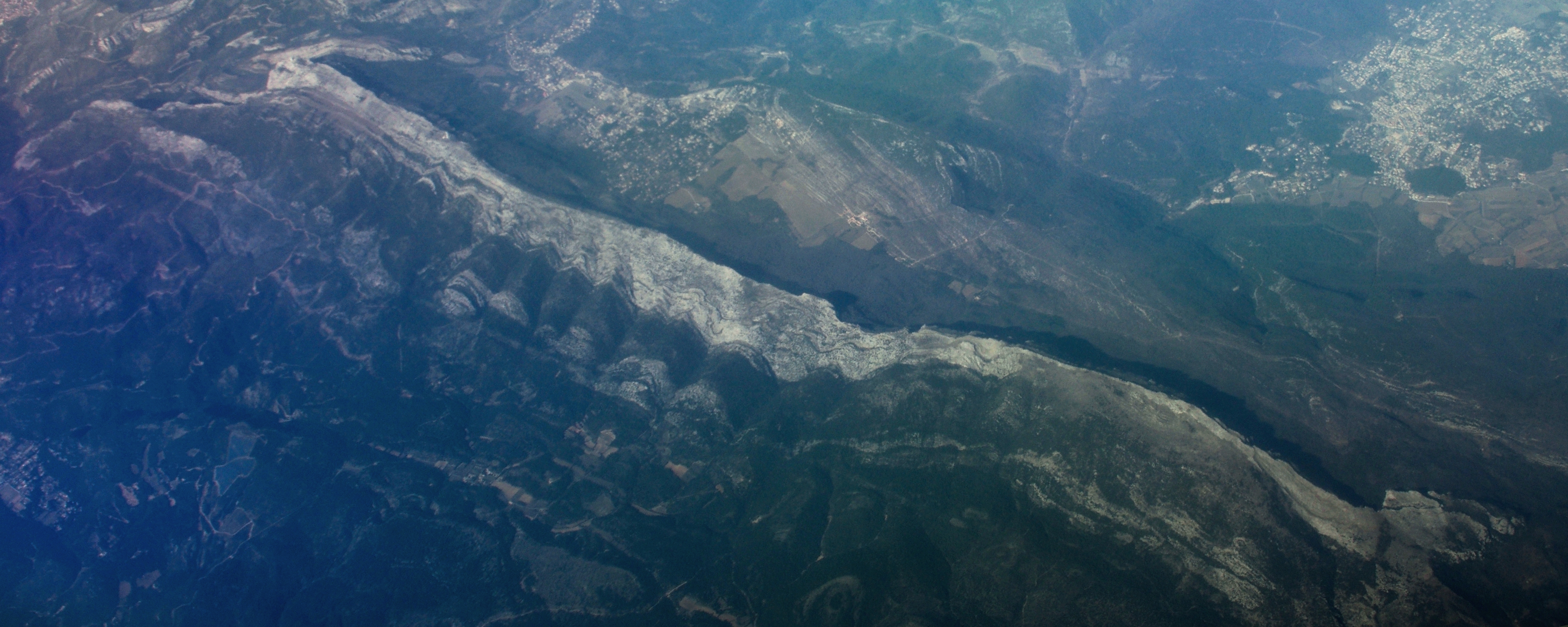 Aerial view of the Sainte-Baume mountain ridge in southern France )Ryanair flight from Palma de Mallorca to Warszawa (Modlin) FR2877).